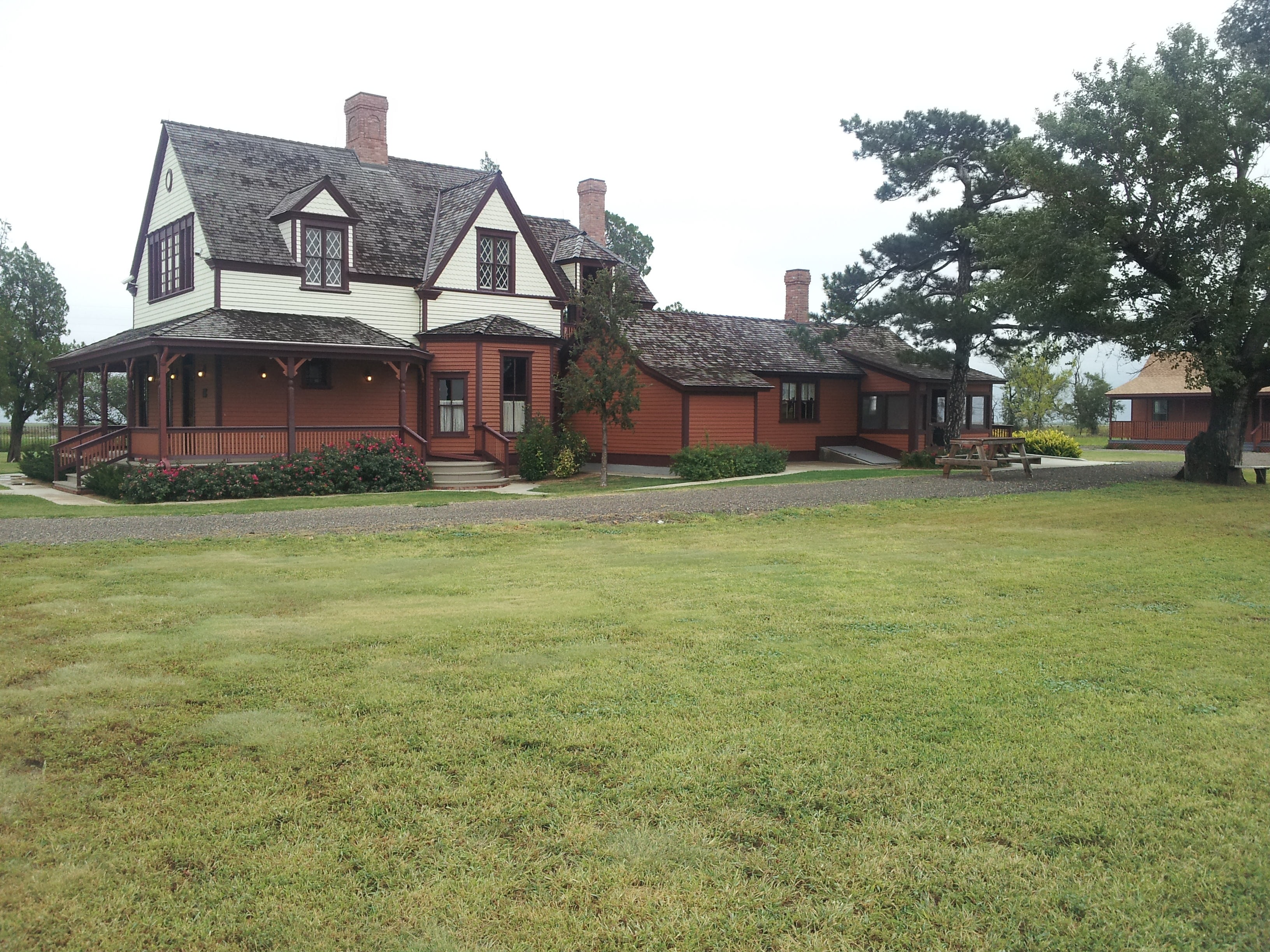 Charles Goodnight Ranch House, also known as the Charles & Mary Ann (Molly) Goodnight Ranch House